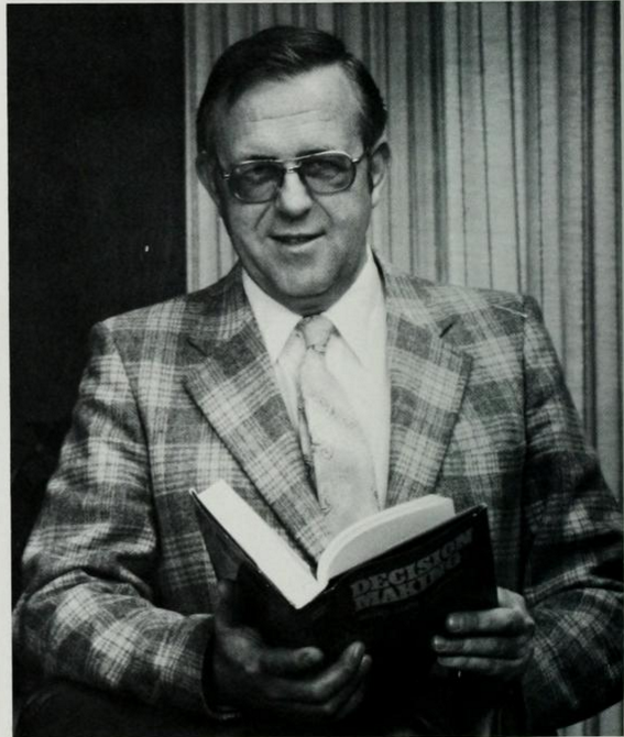 Dr. Smoot in his first year as associate professor at Brigham Young University